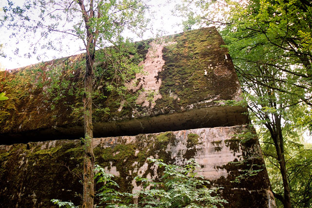 Wolfsschanze, one of Adolf Hitler's headquarters during WWII. The 2 metre thick concrete ceiling has been lifted by an explosion in the demolition on the night January 24/25, 1945.